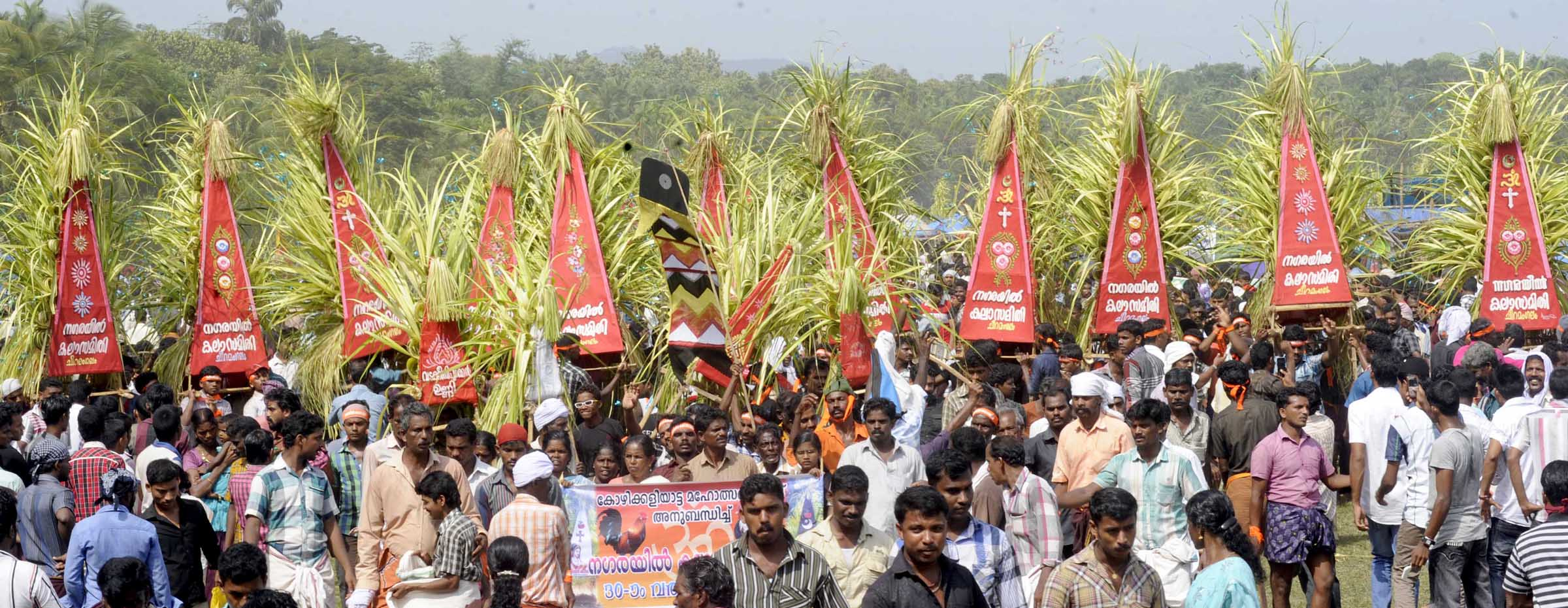 Munniyoor Kozhi kaliyattam